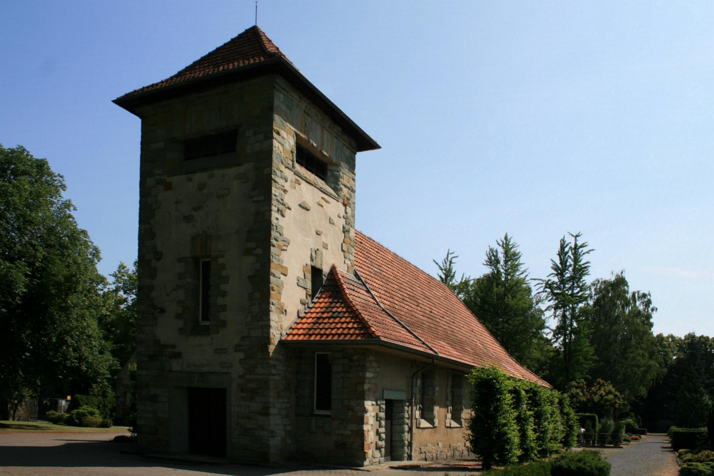 Cultural heritage monument No. N 016 in Mönchengladbach This is a photograph of an architectural monument. 016